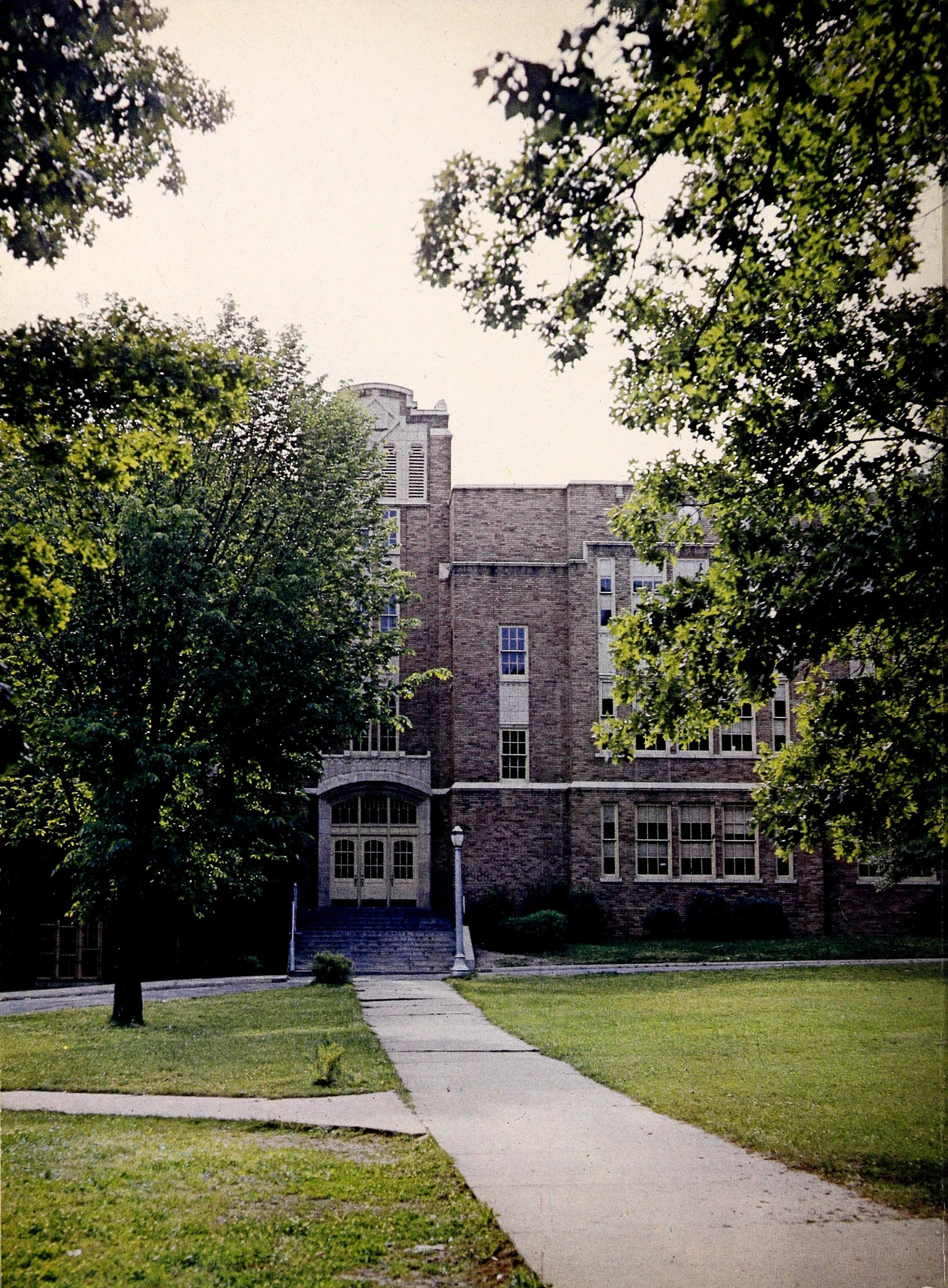 The second page of the 1960 edition of Pemican, the yearbook of High Point High School, featuring a photo of the main school building